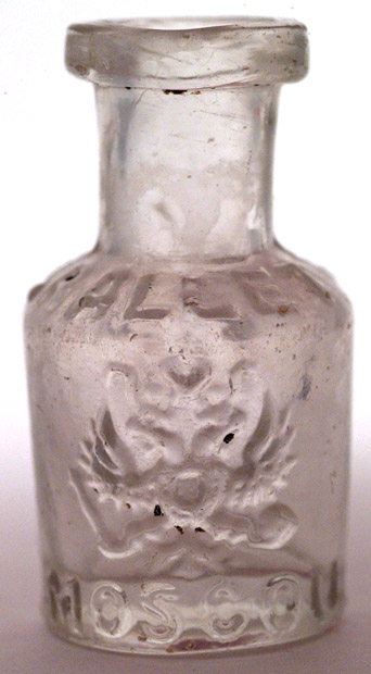 Thumb sized A. Rallet & Co. perfume bottle bearing the Romanov imperial double eagle.